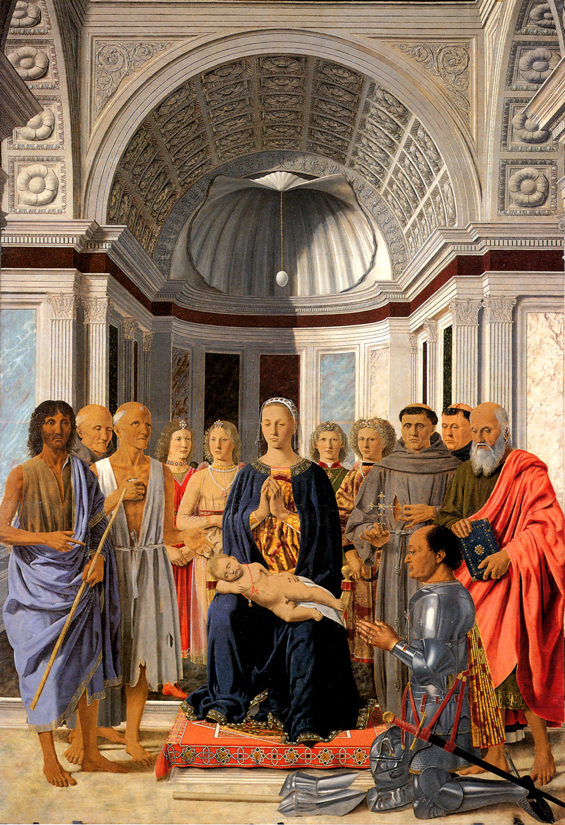 Pala of Montefeltro Panel, 248 x 170 cm Pinacoteca di Brera Native namePinacoteca di BreraLocationMilanCoordinates45° 28′ 18.99″ N, 9° 11′ 15.66″ E Established1882Web page control : Q150066 VIAF: 124531732 ISNI: 0000 0001 2192 8674 ULAN: 500302853 LCCN: n50056780 NLA: 35417152 WorldCat institution QS:P195,Q150066